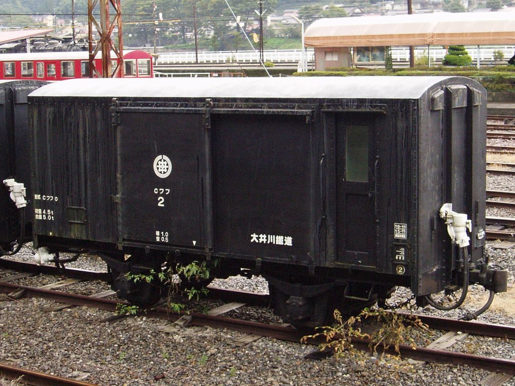 Oigawa Railway type Wafu2. at Senzu Sta. 2007.10.09 Photo by Cassiopeia_sweet.